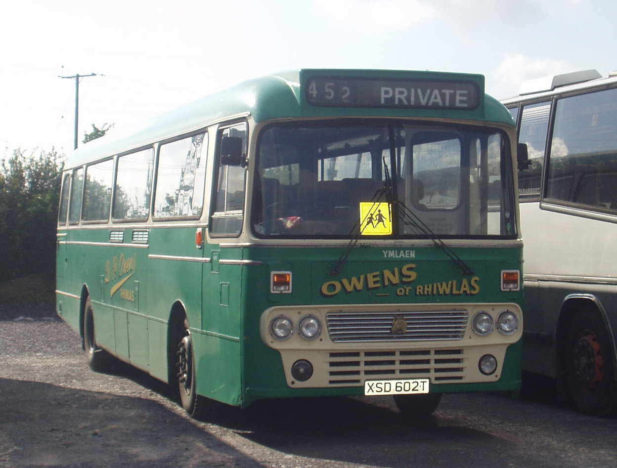 1978 Seddon Pennine 7 / Alexander Y Type XSD 602T at the depot of D. P. Owens, Rhiwlas, Gwynedd, north Wales. This bus's owner believes it to be the last remaining Seddon Pennine 7 in PSV use.